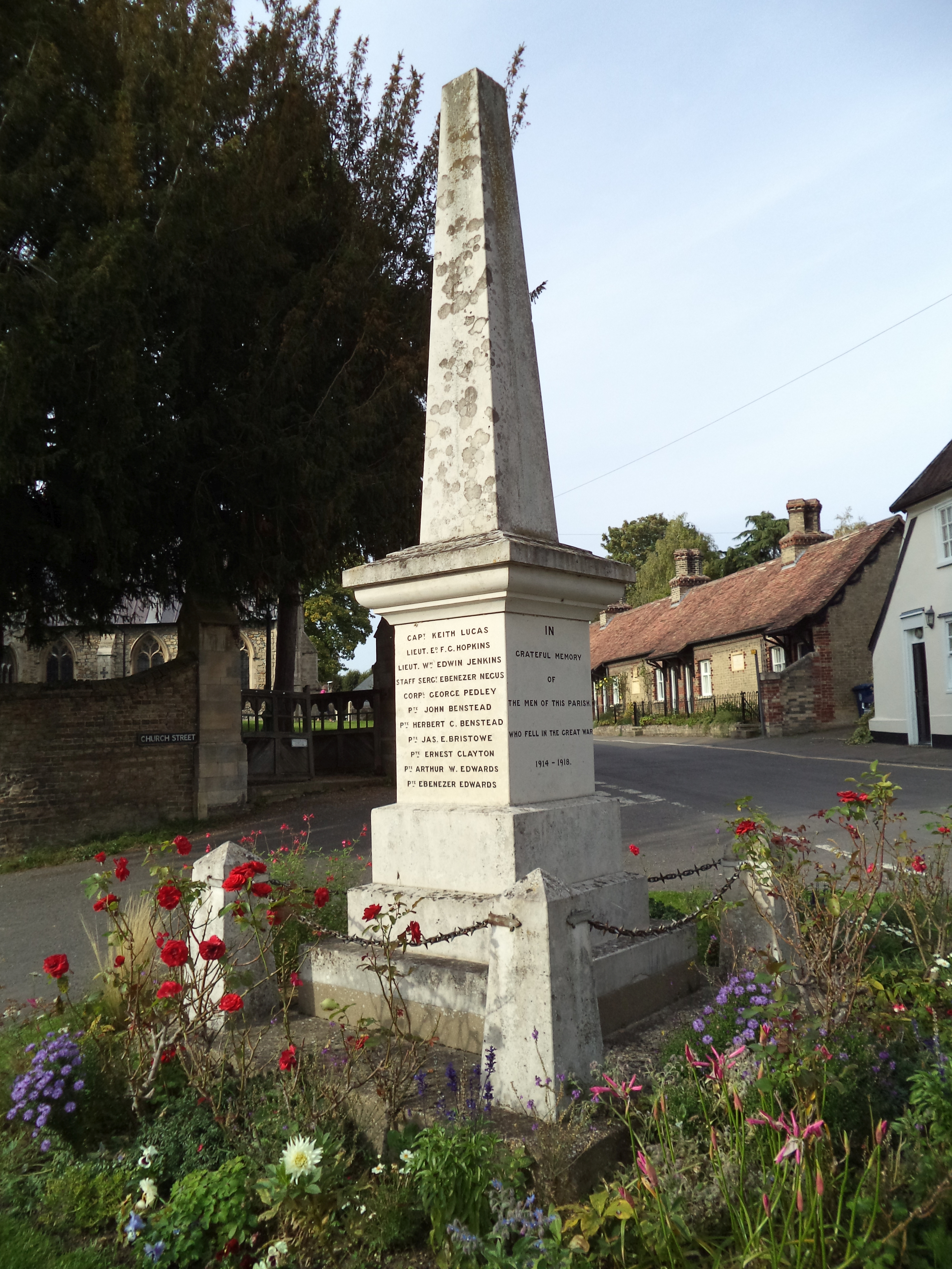 Fen Ditton War Memorial Wikidata has entry Q26677468 with data related to this item.